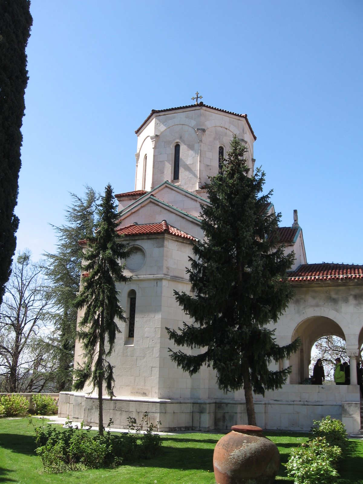 Chapel of Royal Compound, Belgrade